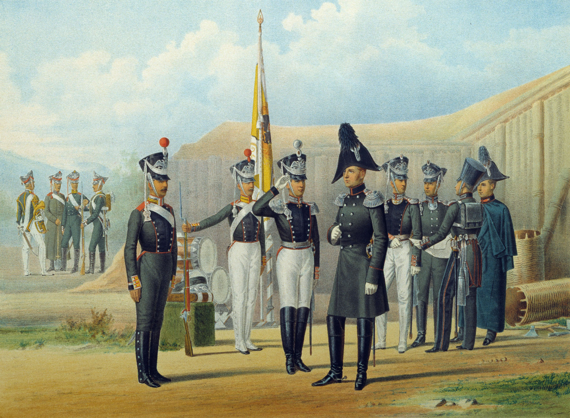 Uniforms of the Leib-Guard Sappers Battalion, 1812.